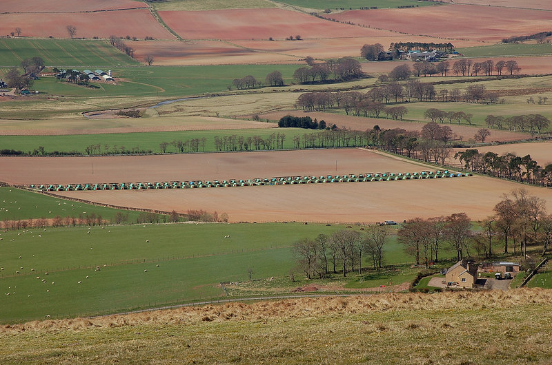 Field patterns in Lauderdale, Scottish Borders, Scotland. Fields near the Leader Water and a long line of plastic-wrapped bales as seen from the summit of Dabshead Hill. The reddish soil has been derived from Devonian sandstones and is characteristic of this eastern part of the Borders.